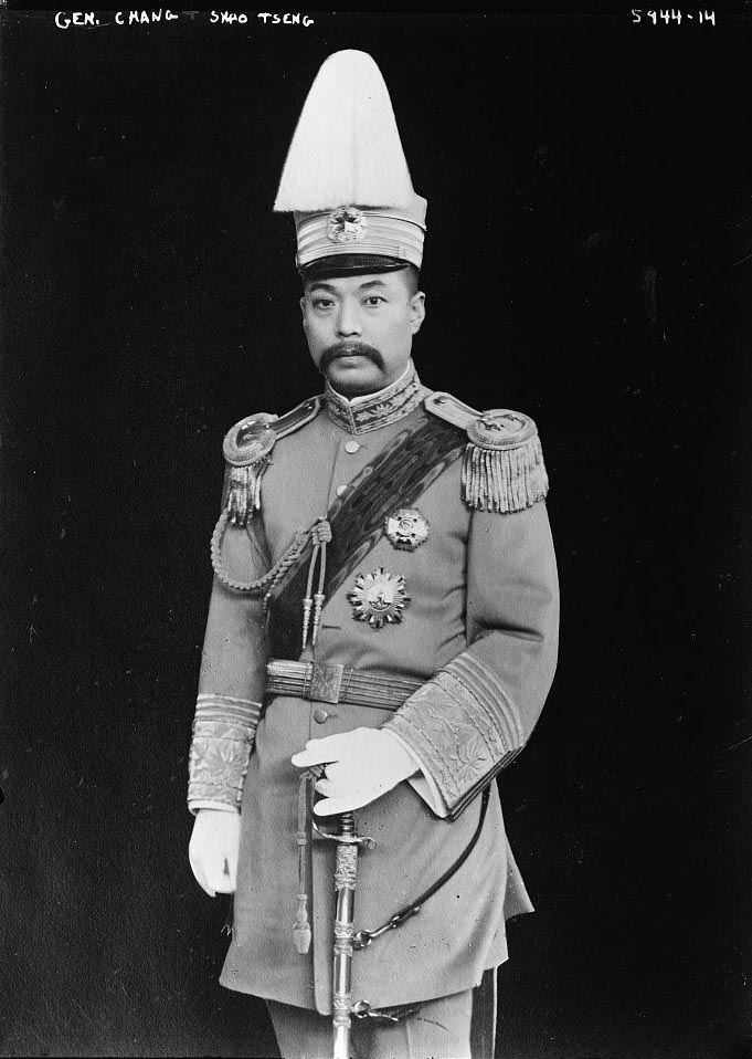 Zhang Shaozeng (Chinese: 張紹曾, Wade-Giles Chang Shao-ts'eng) (1879-1928) was a Beiyang Army general in charge of the 20th Division. His tenure as premier in the Beiyang government was marked by greed and self-glorification and he was forced to flee to the British legation in Tianjin after his resignation.